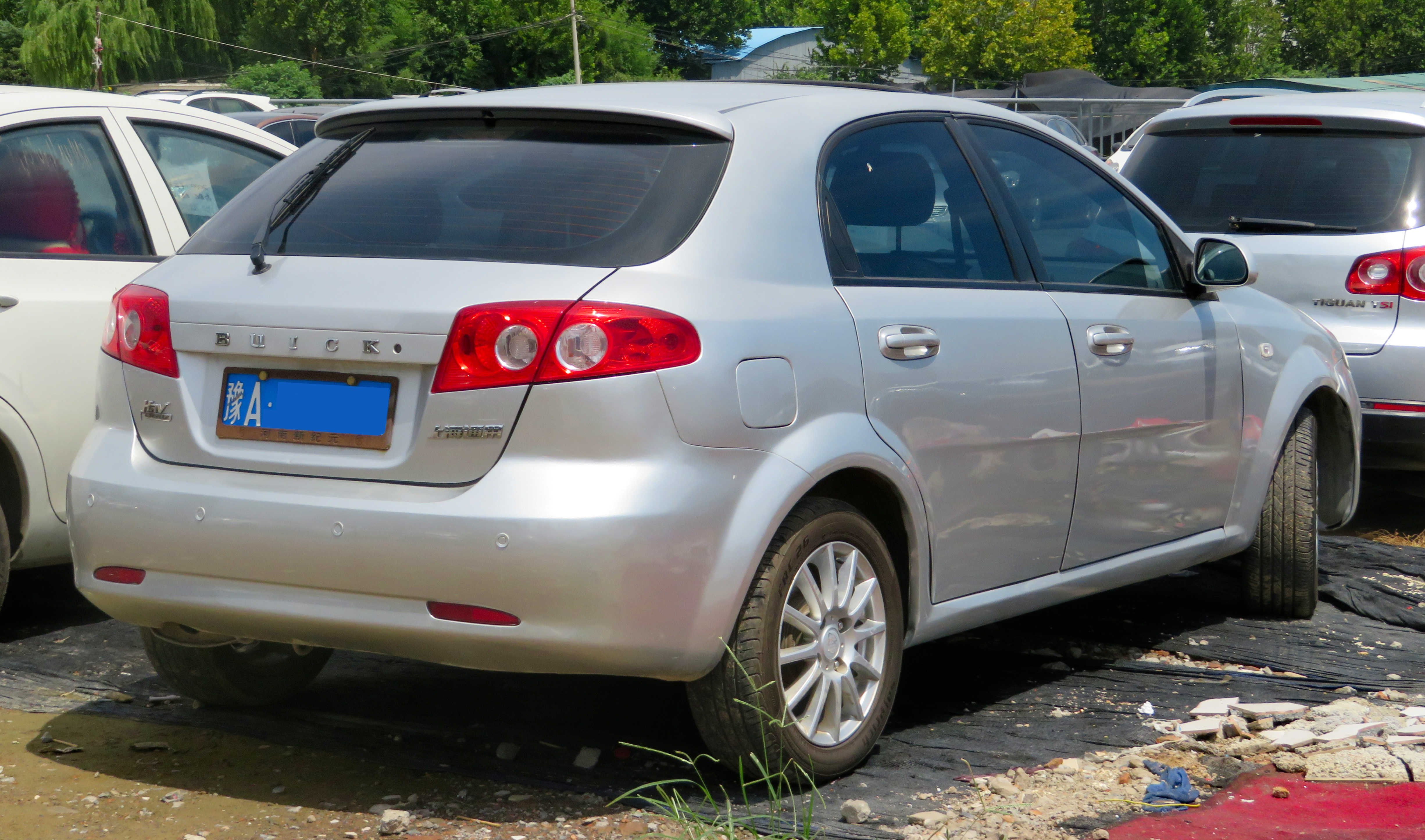 A 2005-2009 Shanghai-GM Buick Excelle HRV photographed at a used car market in Zhengzhou, Henan province, China